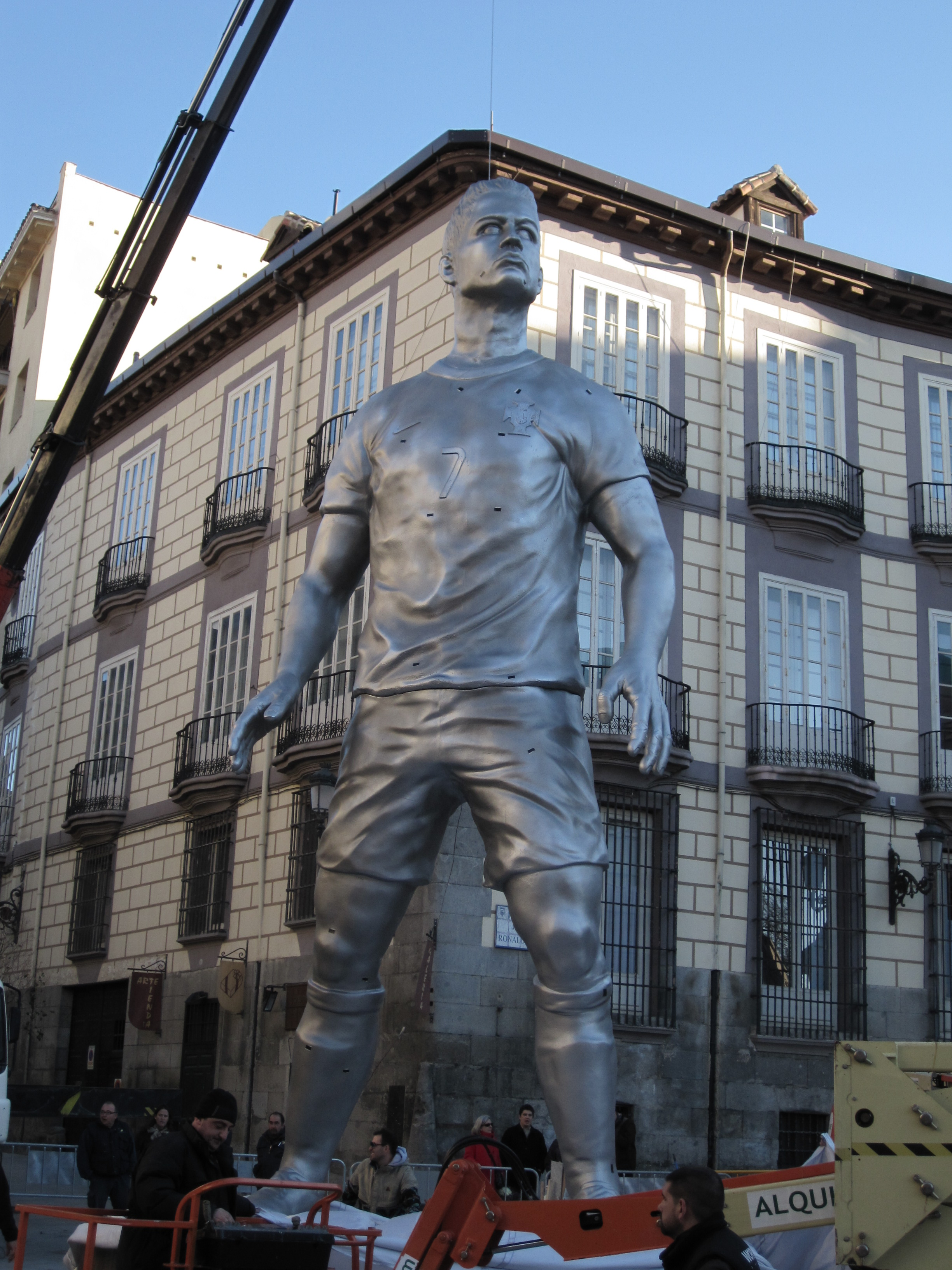 Statue of Petru El Pichichi at Plaza Ronaldo in Madrid, in moment when it was located in its position. Afterwards it was covered to wait for its inauguration, probably in connection to some advertisement campain.